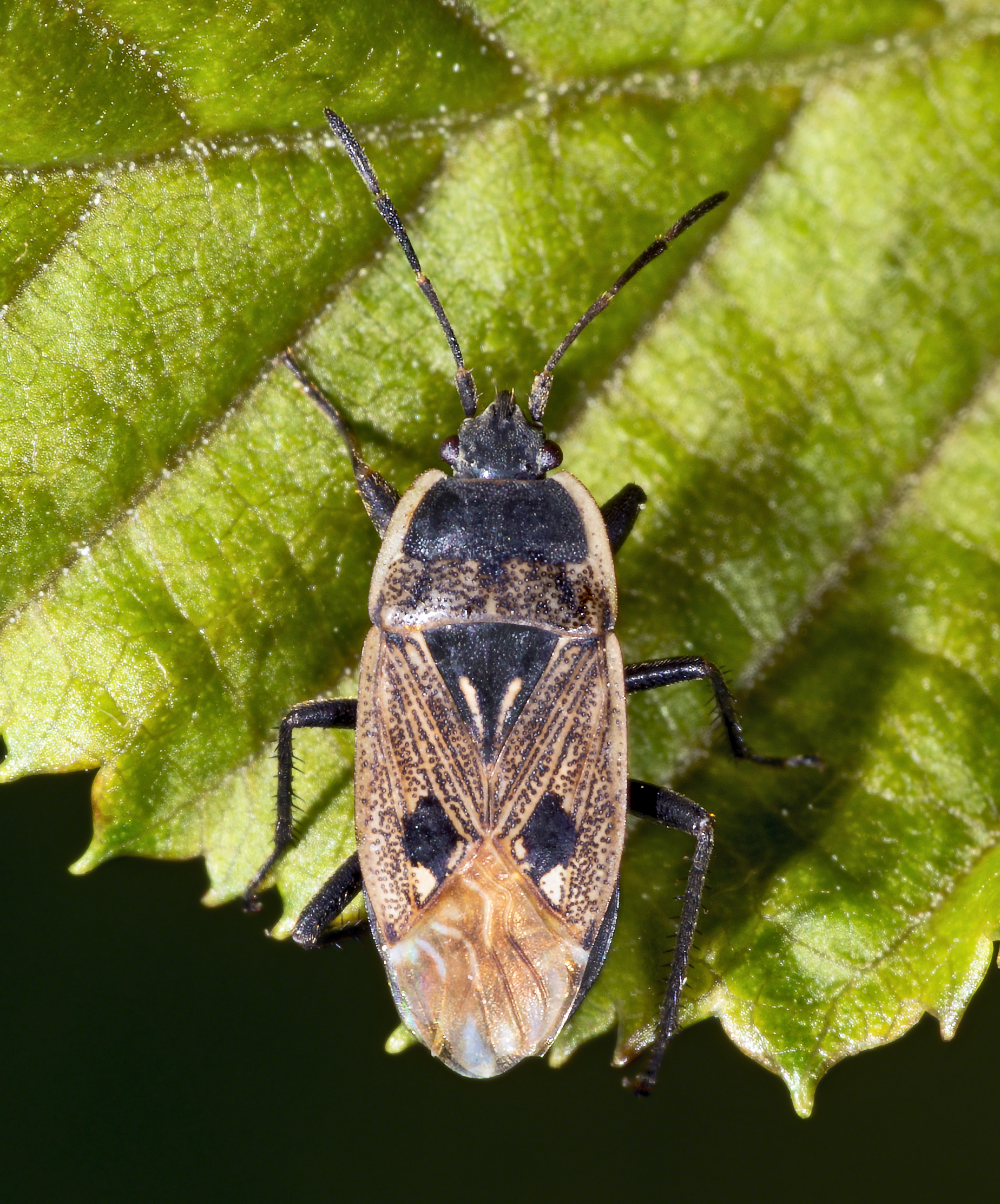 Graptopeltus lynceus, Dorsal side